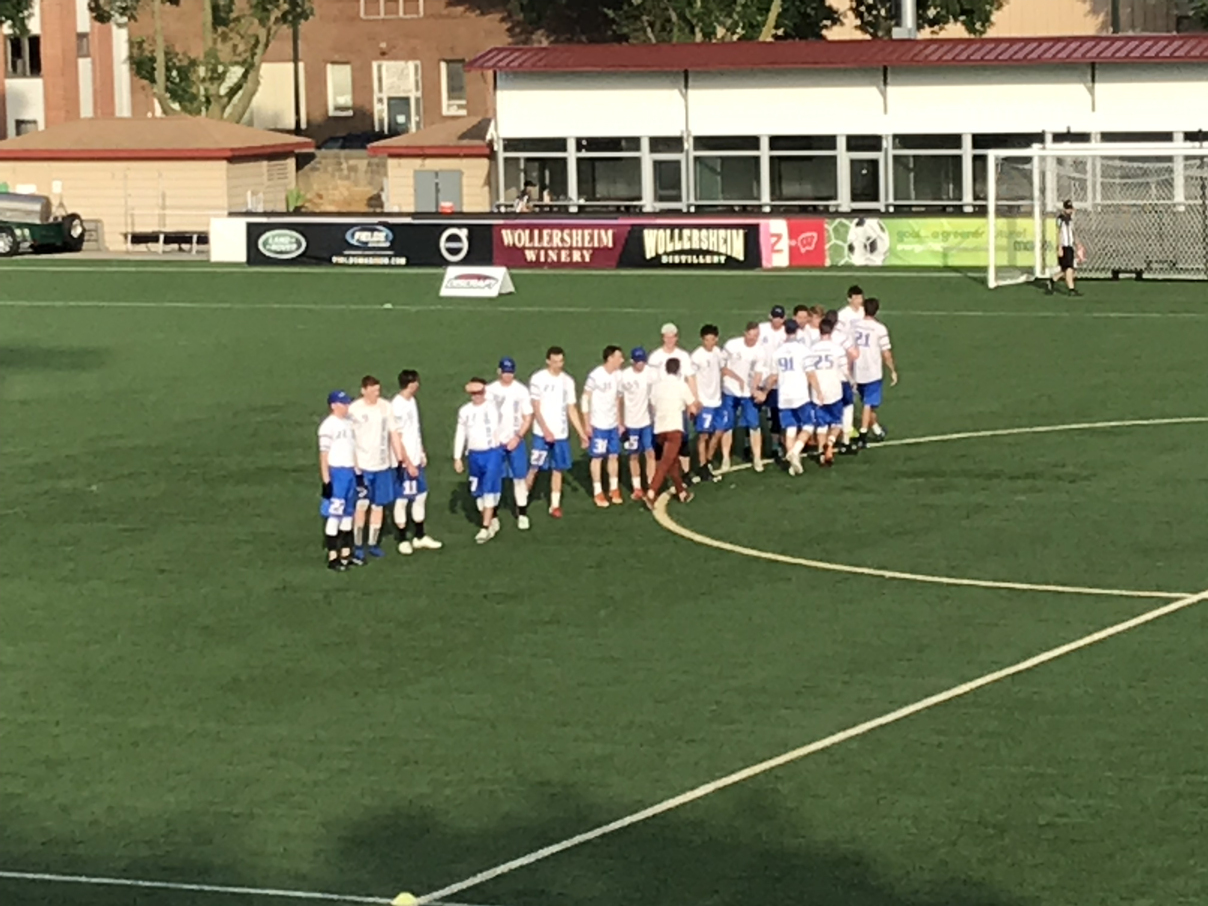 The Chicago Wildfire wearing their away jerseys before a game against the Madison Radicals at Breese Stevens Field on June 28, 2019